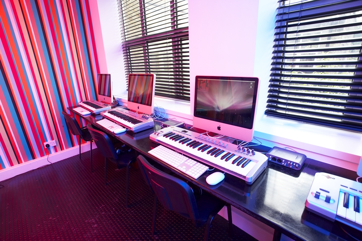 Mac Black & White Room